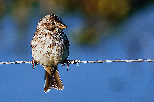 Corn Bunting (Emberiza calandra or Miliaria calandra) in Spain.